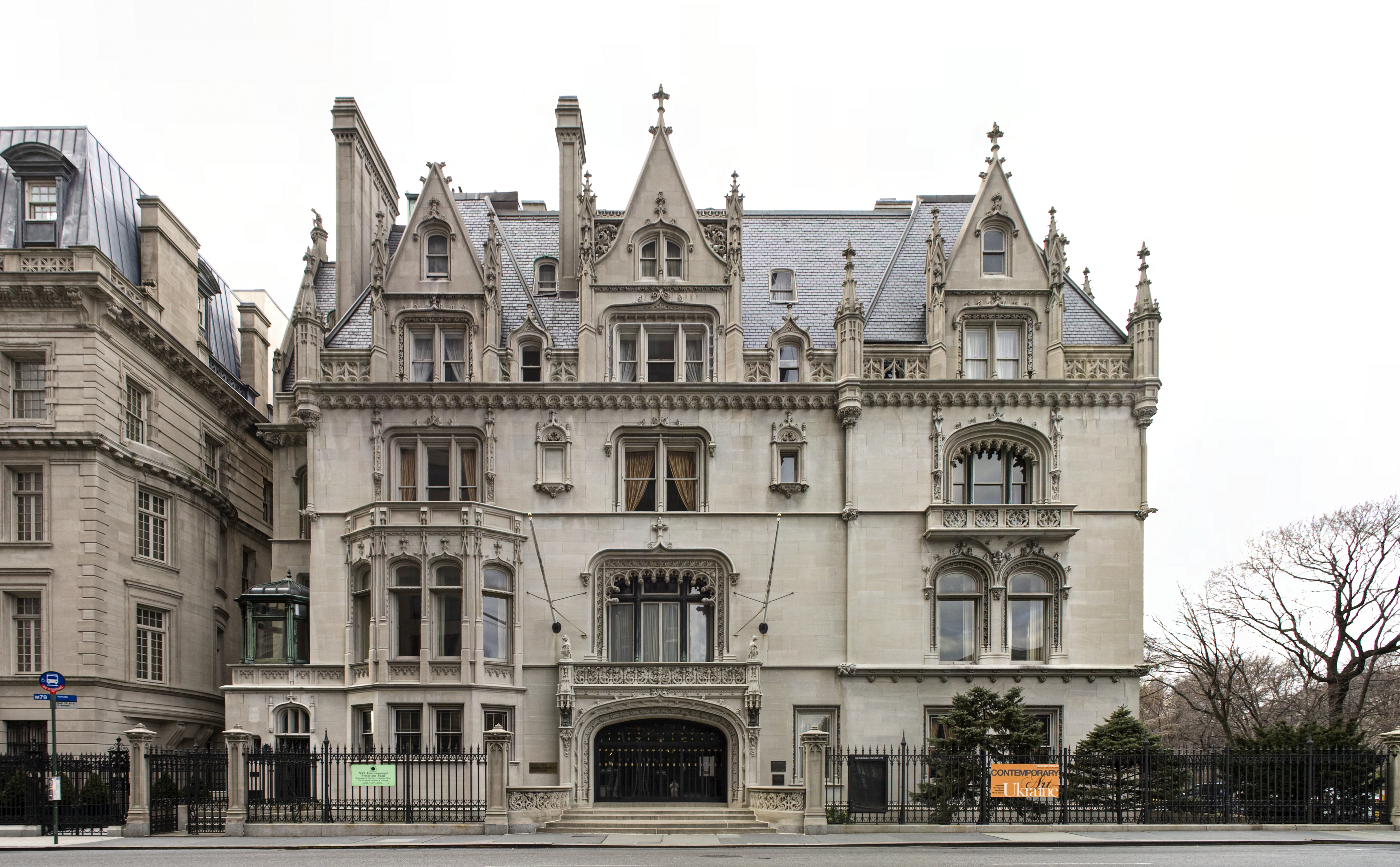 The Harry F. Sinclair House was built in 1898. This French Renaissance House was designed by CPH Gilbert and built for Isaac Fletcher. It later came into the possession of Mr. Sinclair, the founder of Sinclair Oil. It is on the southeast corner of the intersection of 5th Ave and 79th St. It now houses the Ukrainian Institute of America.